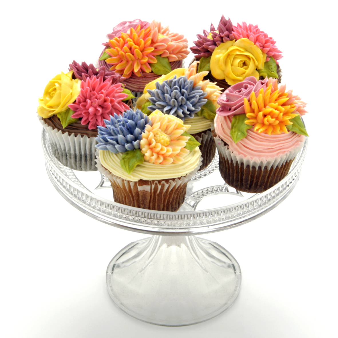 Buttercream cupcakes made in Cheshire by Katjaskupcakes